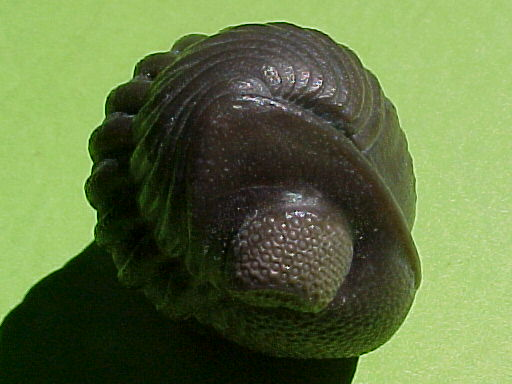 Class Trilobita, Order Phacopida, Family Phacopidae, Eldredgeops rana crassituberculata